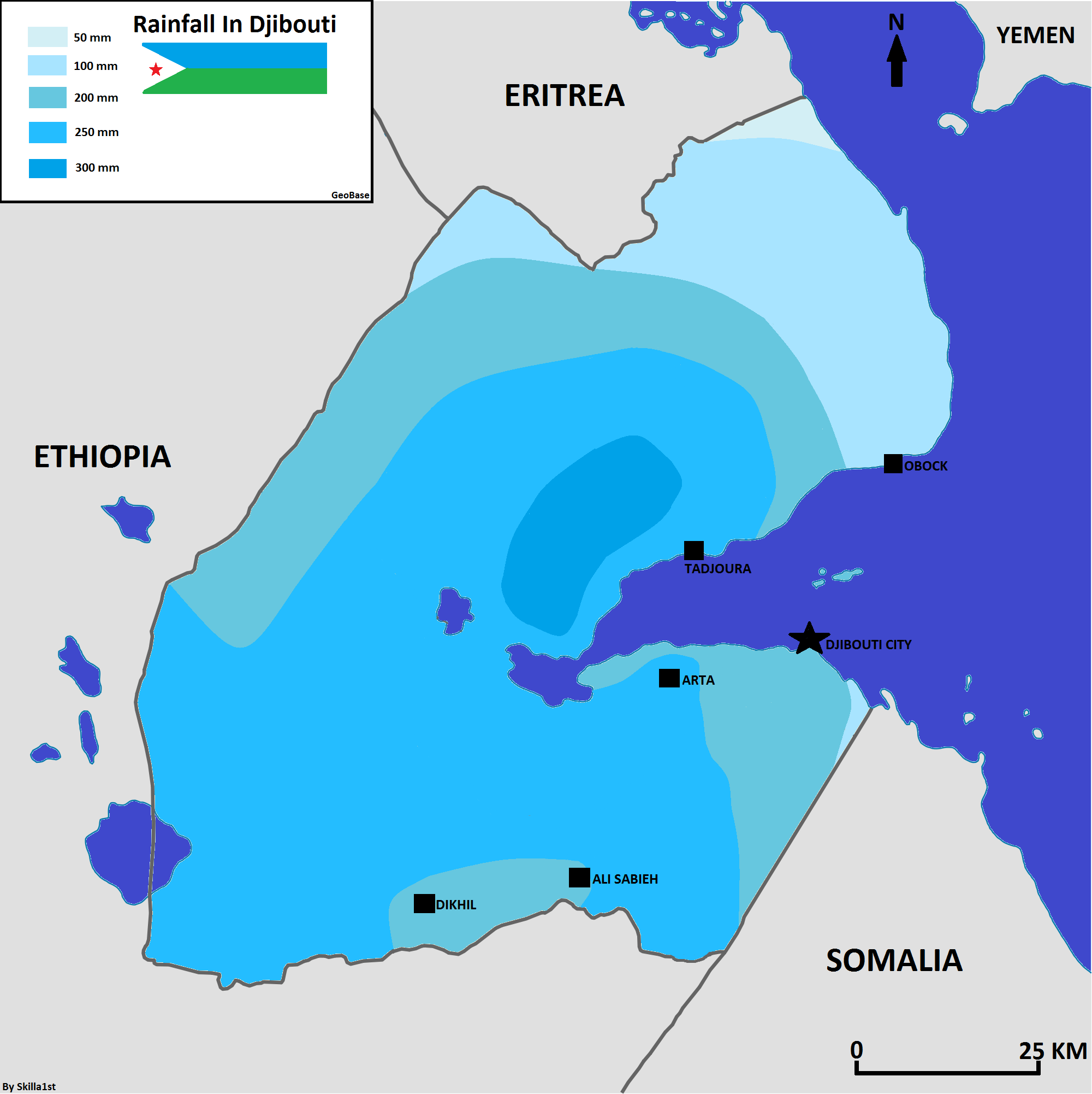 The rainfall of the Republic of Djibouti